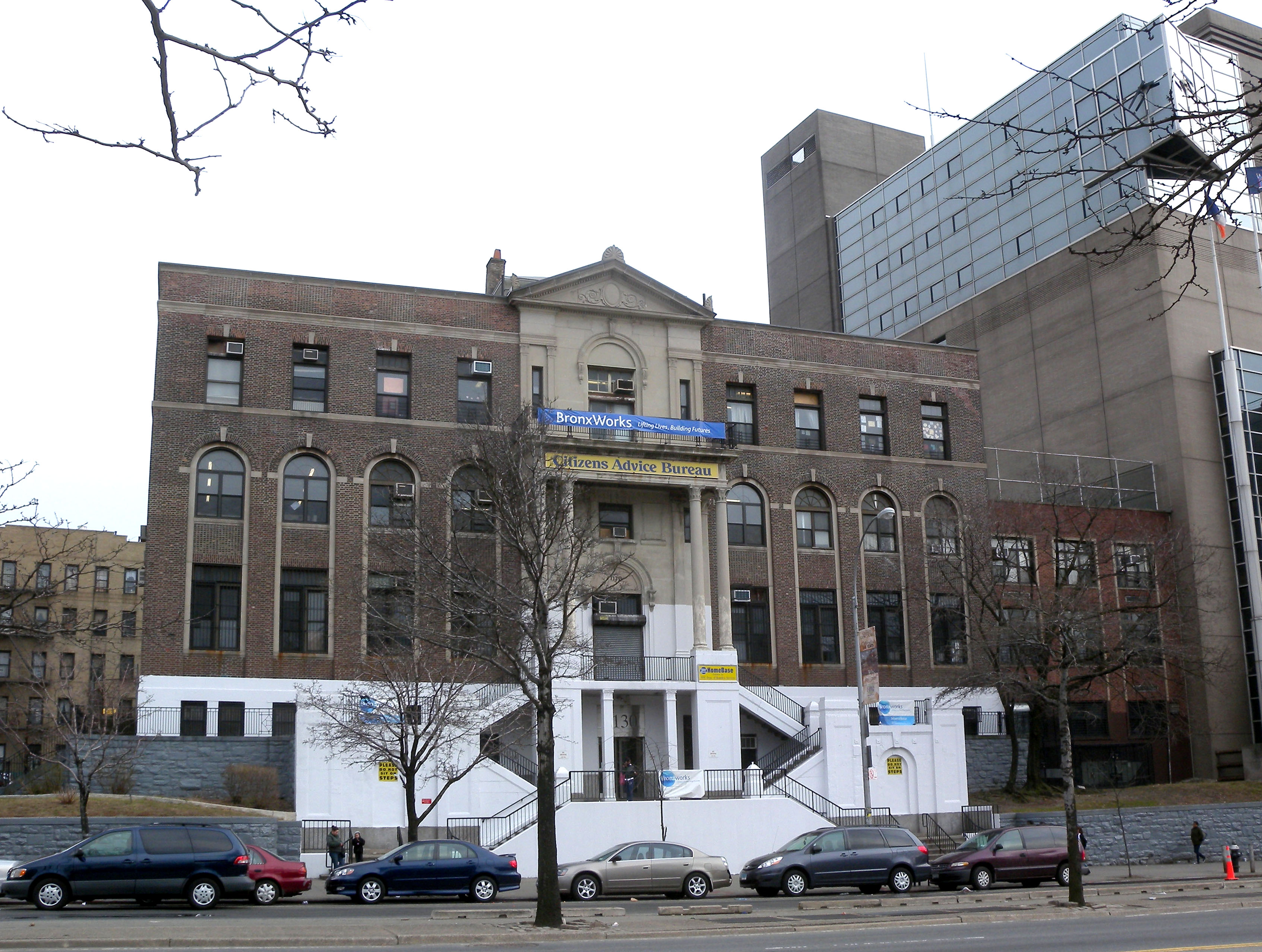 Looking southeast across Grand Concourse at BronxWorks on a cloudy afternoon.